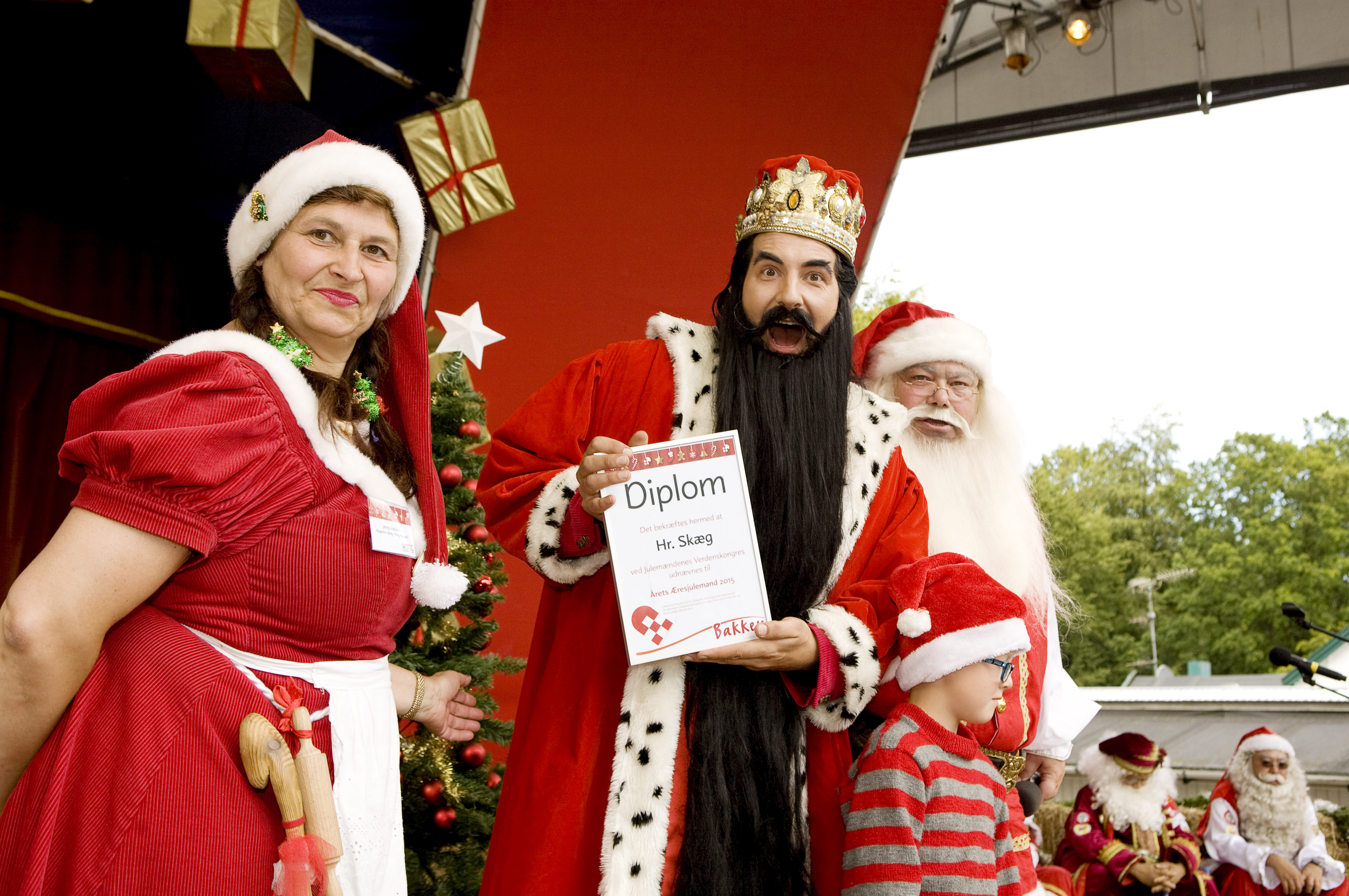 World Santa Claus Congress (Julemændenes Verdenskongres) in the amusement park Bakken north of Copenhagen. The entertainer and television host Hr. Skæg (Mr. Beard) becomes the honour Santa Claus of the year.